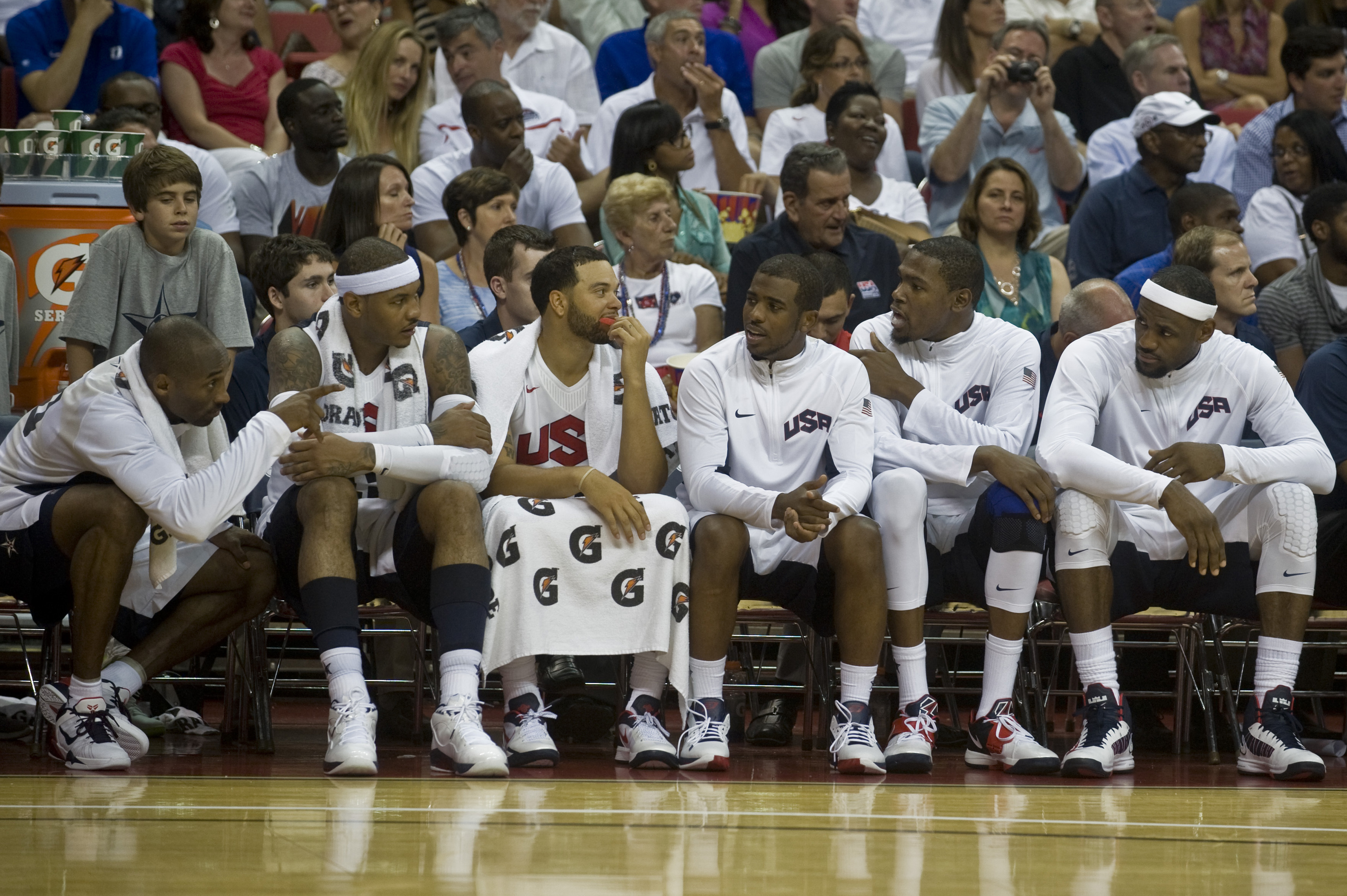 USA Olympic Men's Basketball team players sit on the bench during the 4th quarter of an exhibition game against the Dominican Republic national team, July 12, 2012, at the Thomas and Mack Center, Las Vegas, Nev. The members of the 2012 USA Men's Basketball team will play in the Summer Olympics in London, England.